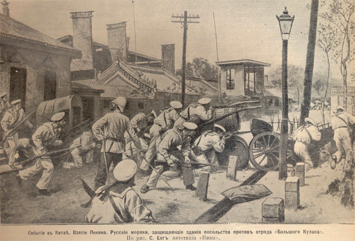 Russian troops defend the embassy quarter in Beijing